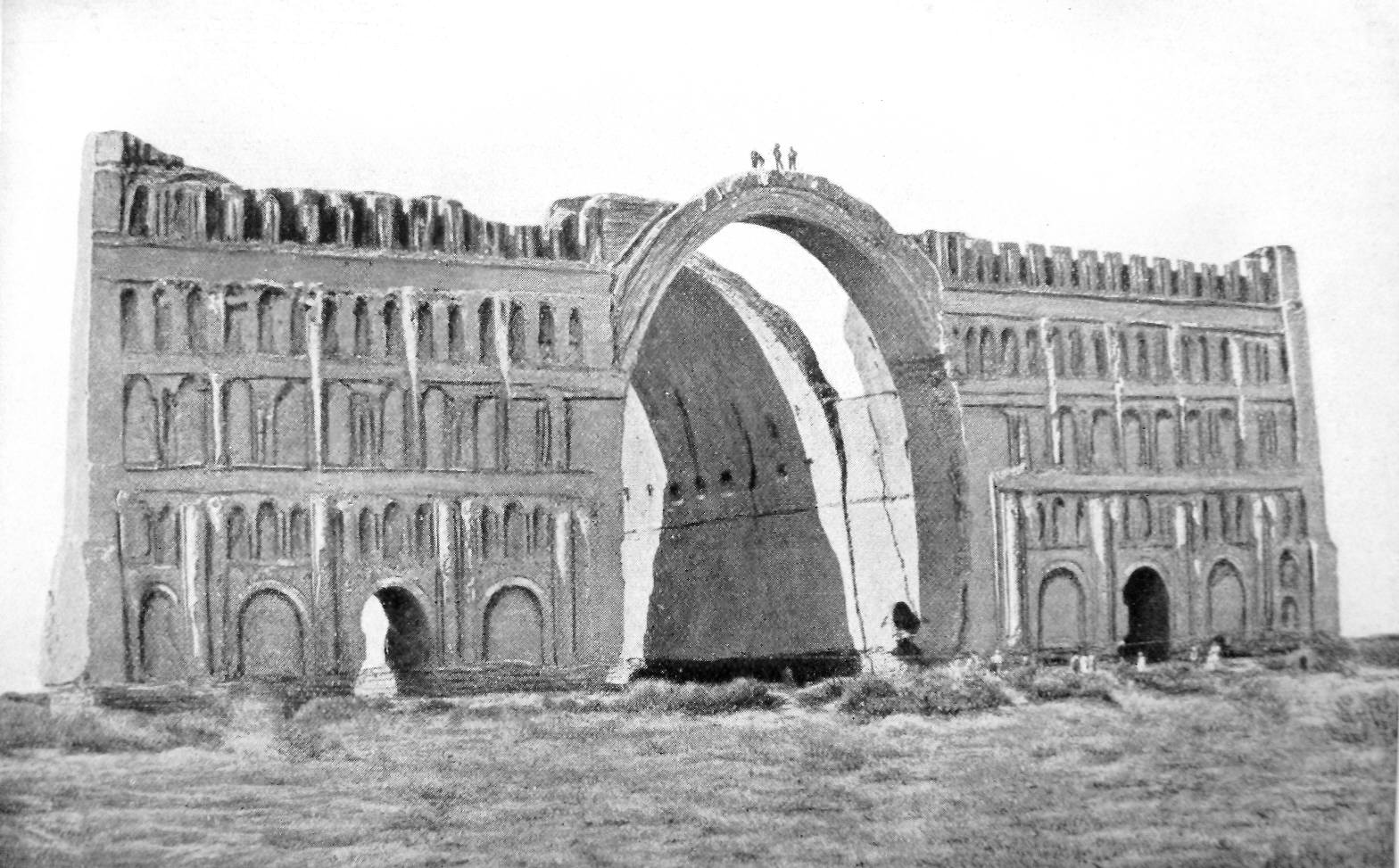 Photograph of the remains of the White Palace at Ctesiphon, Iraq, with the famous Arch of Ctesiphon, taken in 1864, before the collapse of the right-hand facade